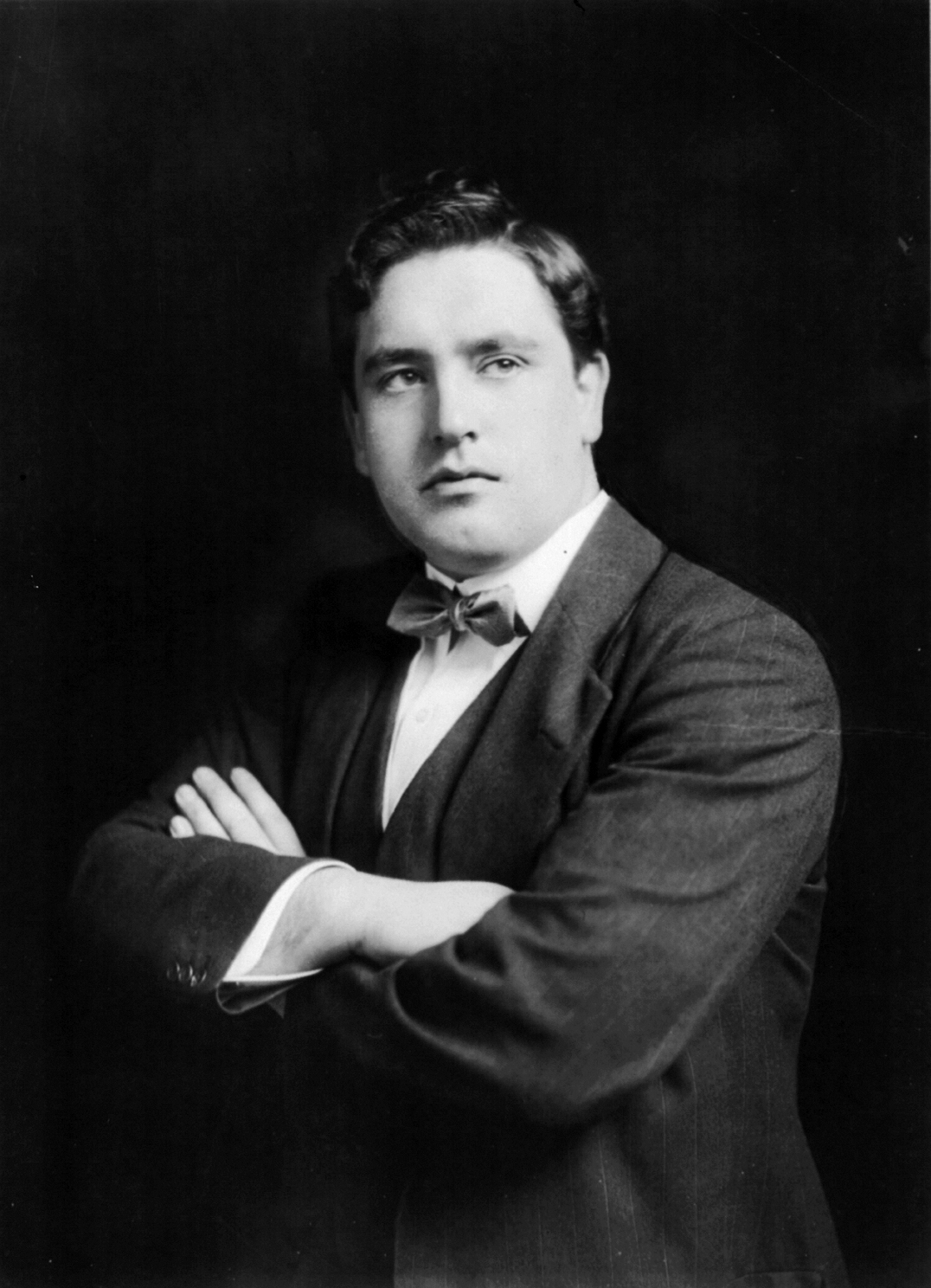 John McCormack, Irish tenor